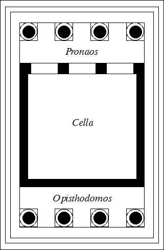 Planfloor of the Temple of Athena Nike: Nike means Victory in Greek, and Athena was worshipped in this form, as goddess of victory, on the Acropolis of Athens. Her temple, built around 427 BC, was the earliest Ionic temple on the Acropolis sanctuary